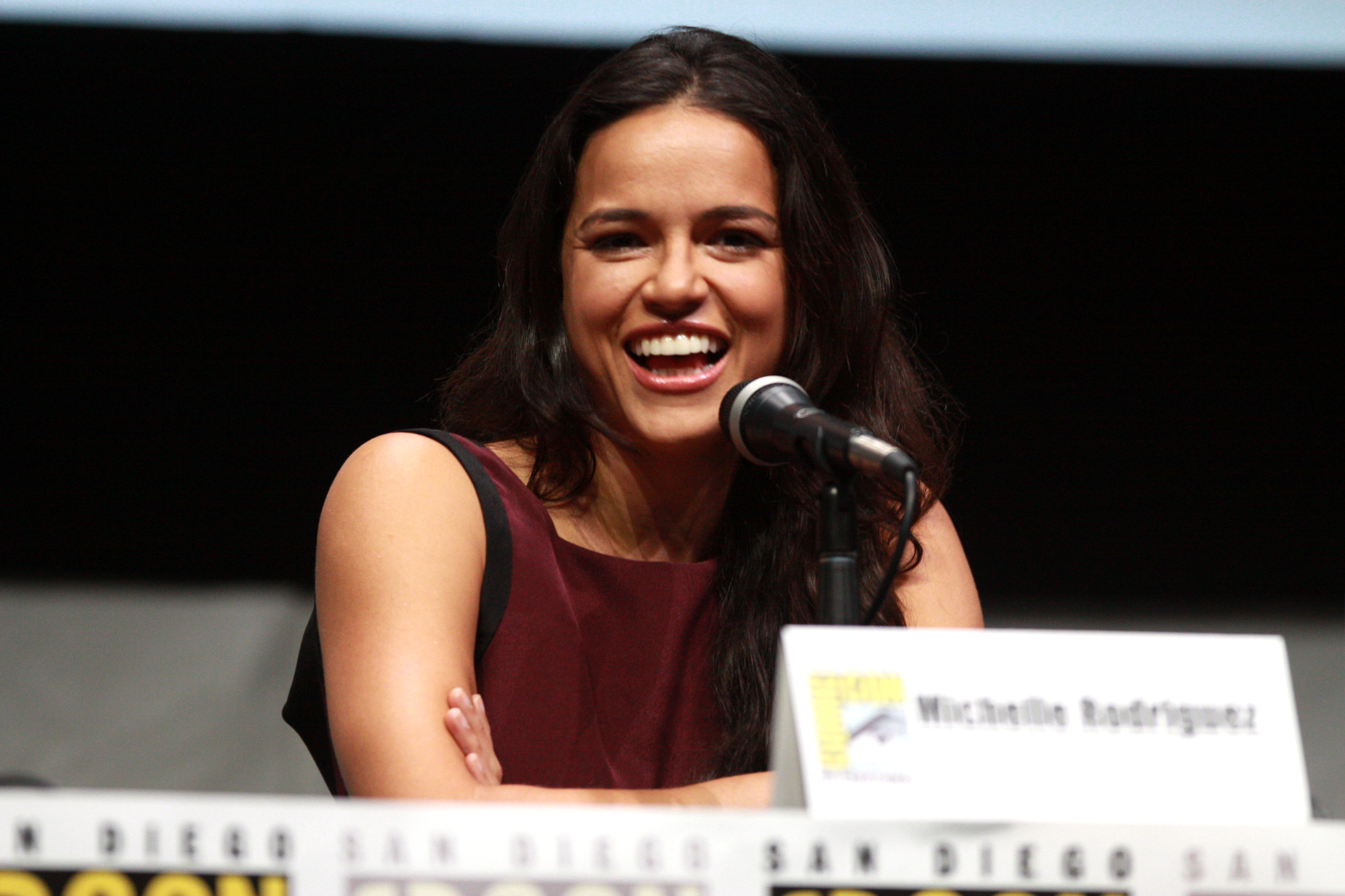 Michelle Rodriguez speaking at the 2013 San Diego Comic Con International, for Entertainment Weekly's "Women Who Kick Ass" panel, at the San Diego Convention Center in San Diego, California.